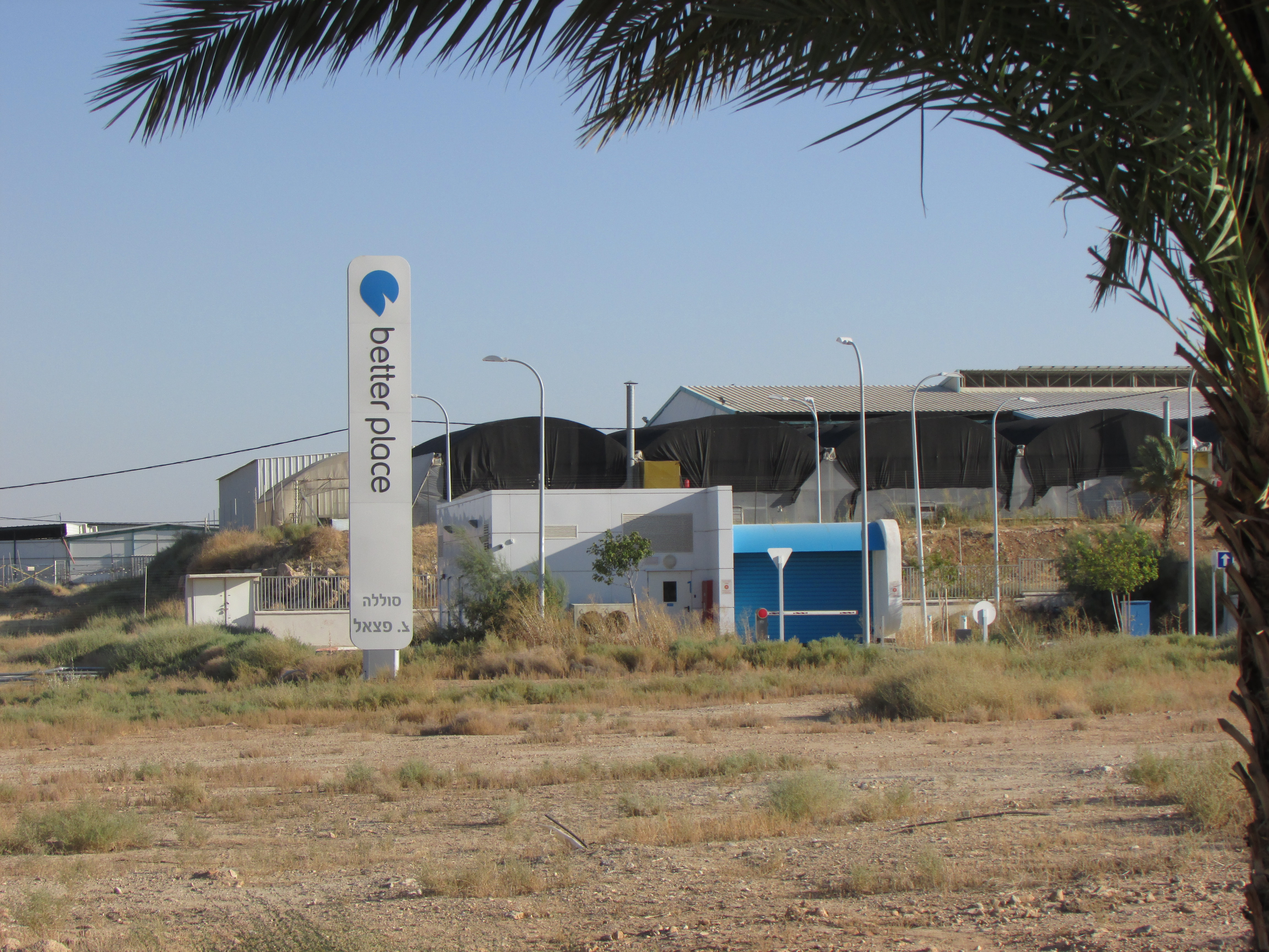 Better Place charging station at Mifgash HaBikaa